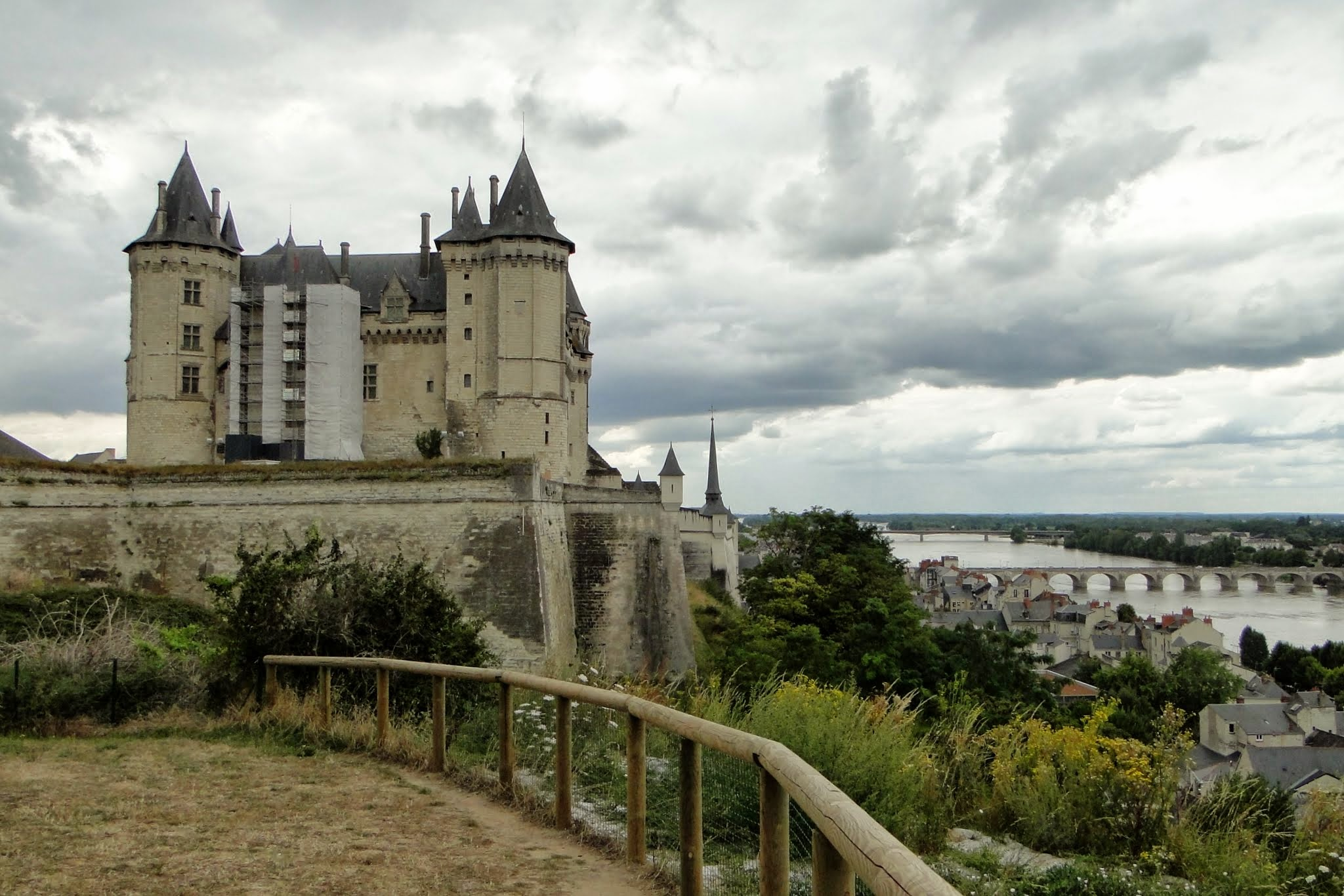 Castillo de Saumer y el puente medieval